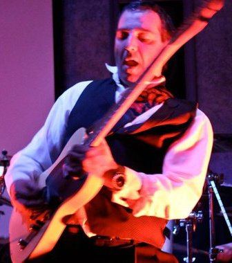 John Cannavo playing an old Fender Telecaster